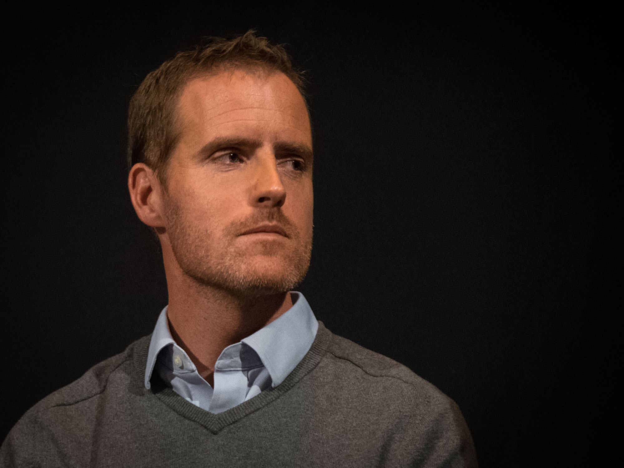 Mati Friedman - Journalist